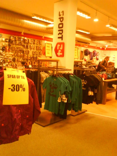 Sport24 Haderslev